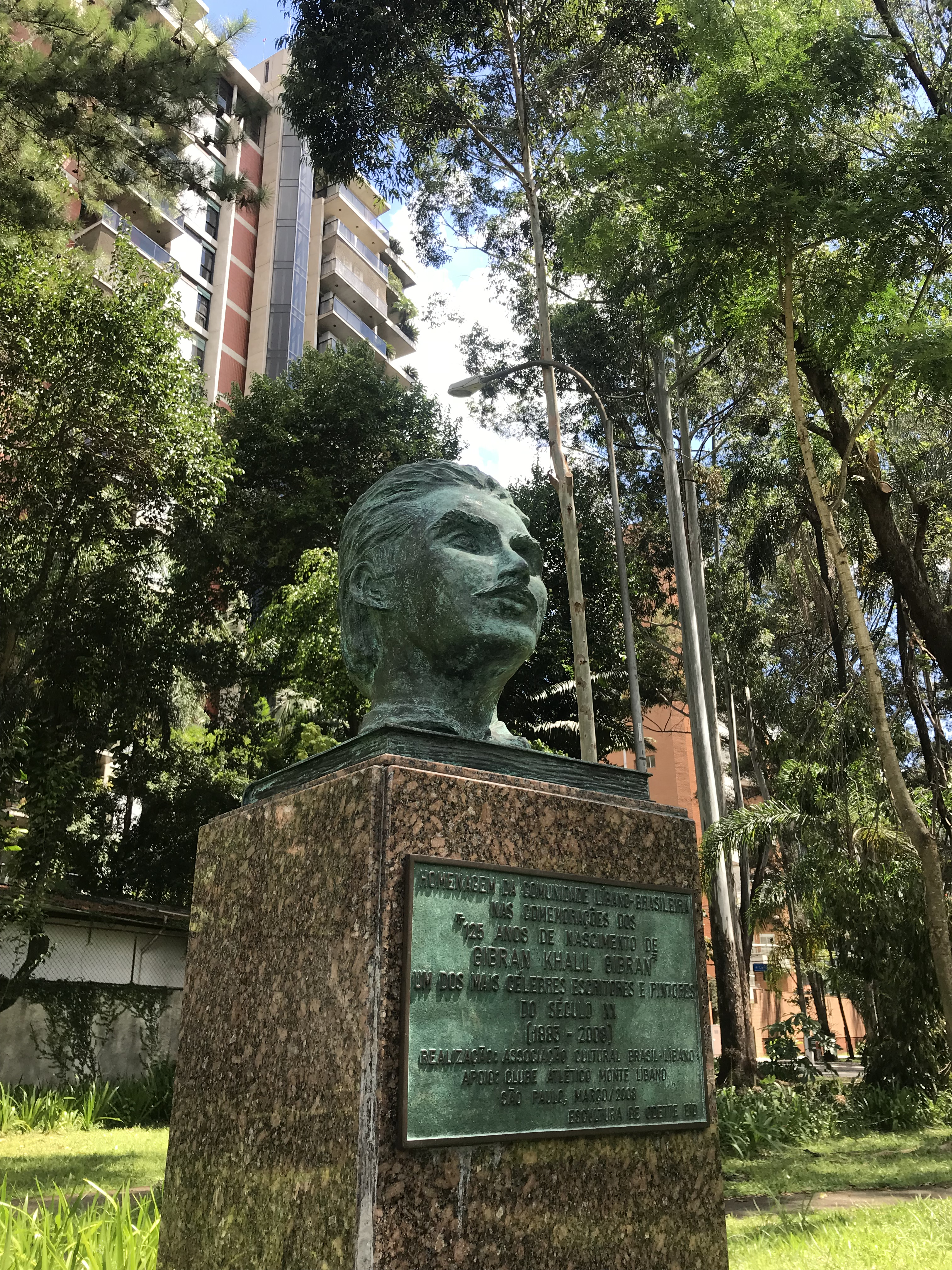 Side view of "GIBRAN KHALIL GIBRAN", in São Paulo, Brazil